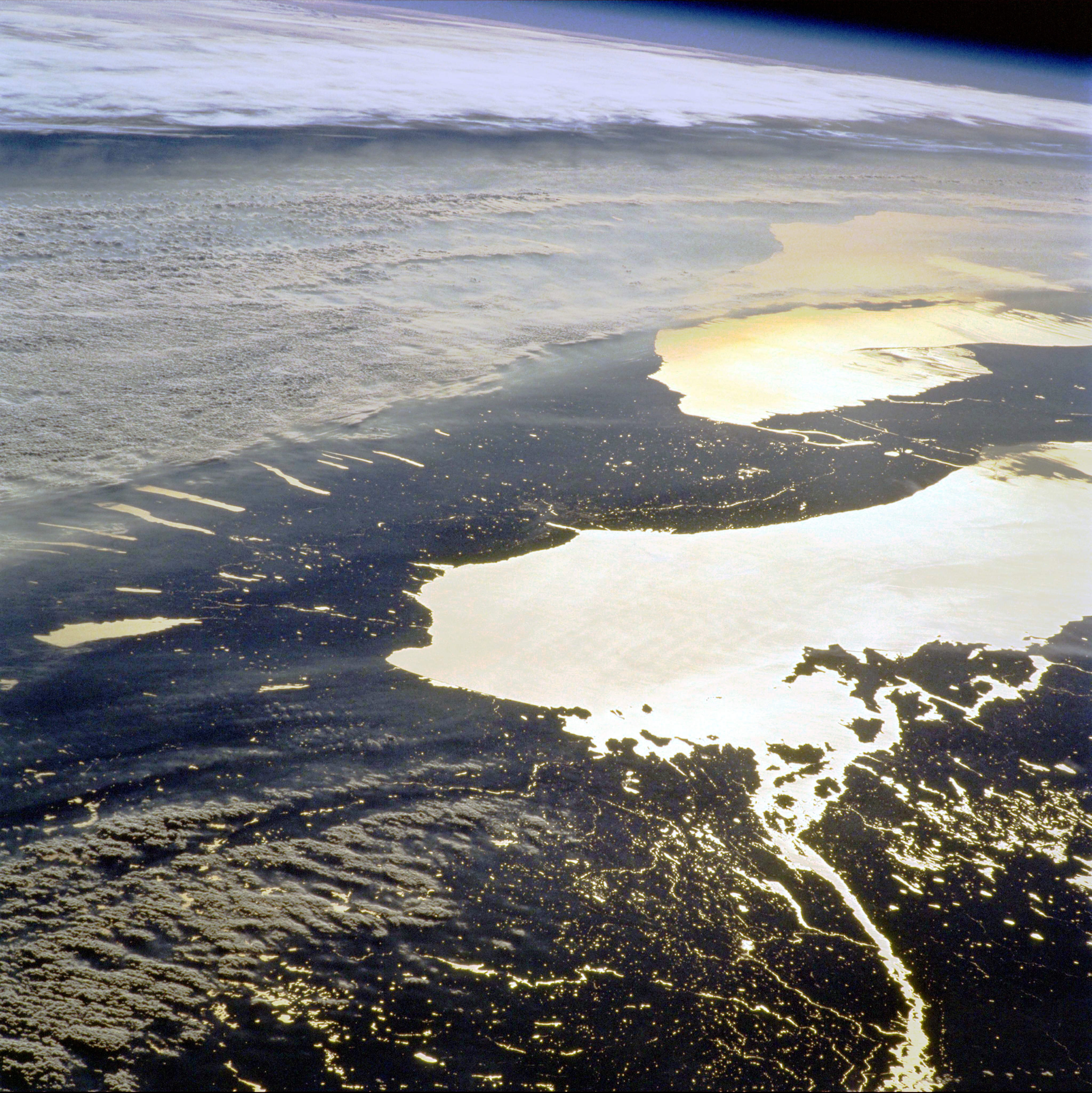 NASA Goddard Space Flight Center (NASA-GSFC) via pingnews.